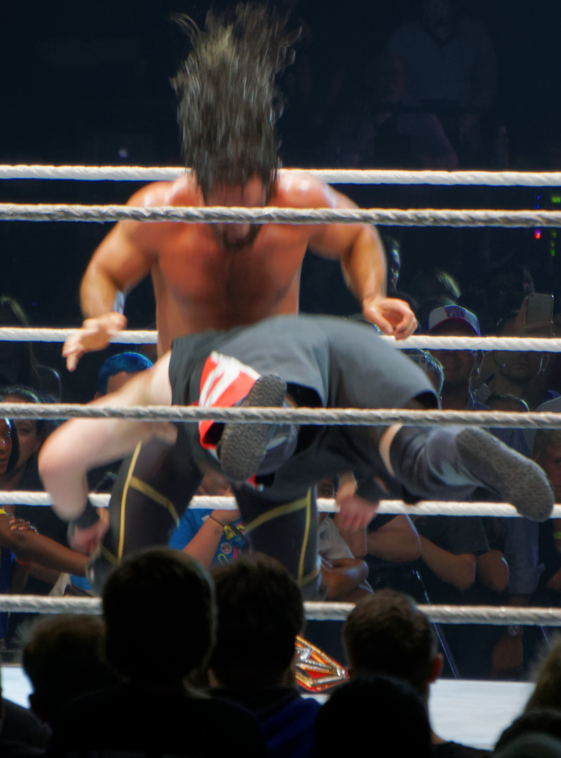 Seth Rollins performing Pedigree on Kevin Owens